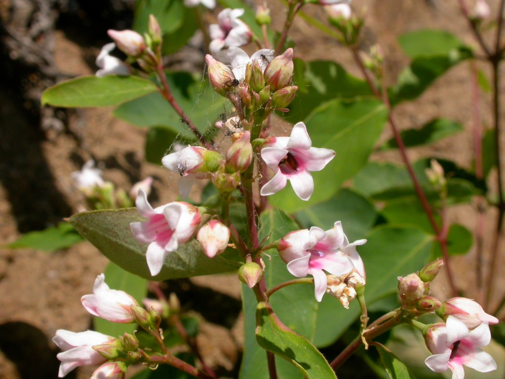 The predominantly whitish petals are often pinkish tinged.